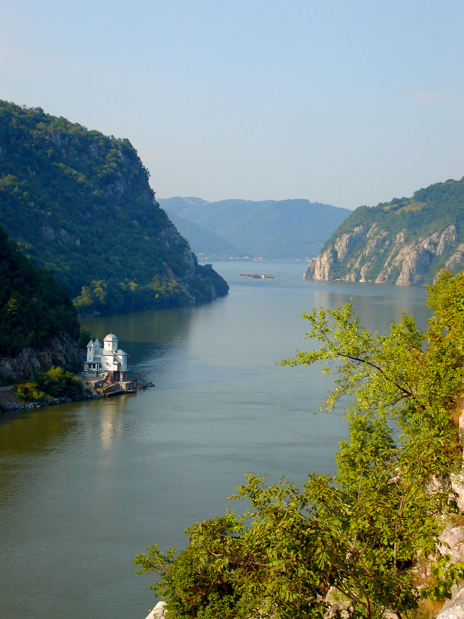 Danube River near Iron Gate.